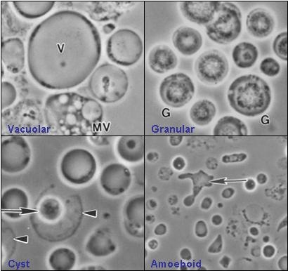 Image shows four common forms of Blastocystis hominis - vacuolar, granular, amoeboid, and cyst forms. Image created by Valentia Lim Zhining on May 14th, 2006.